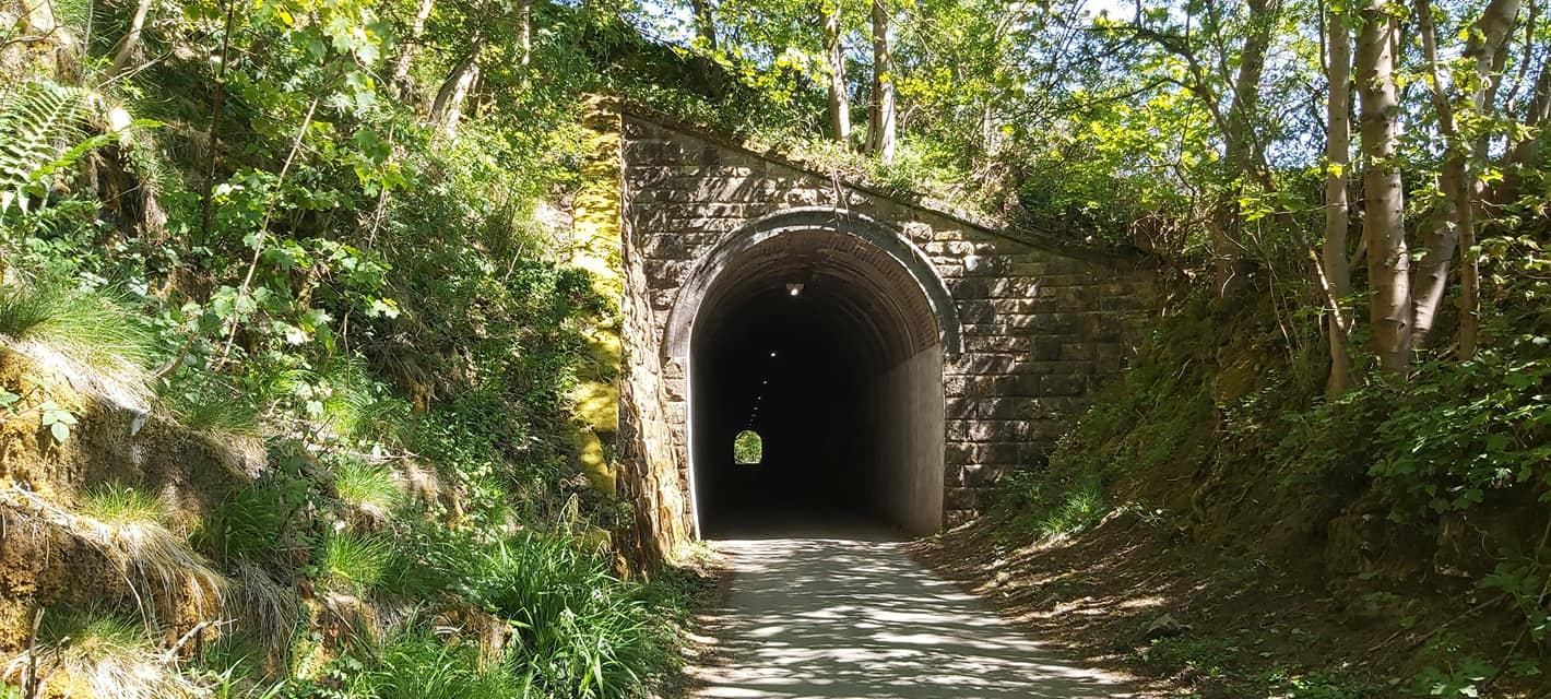 My own from a visit.